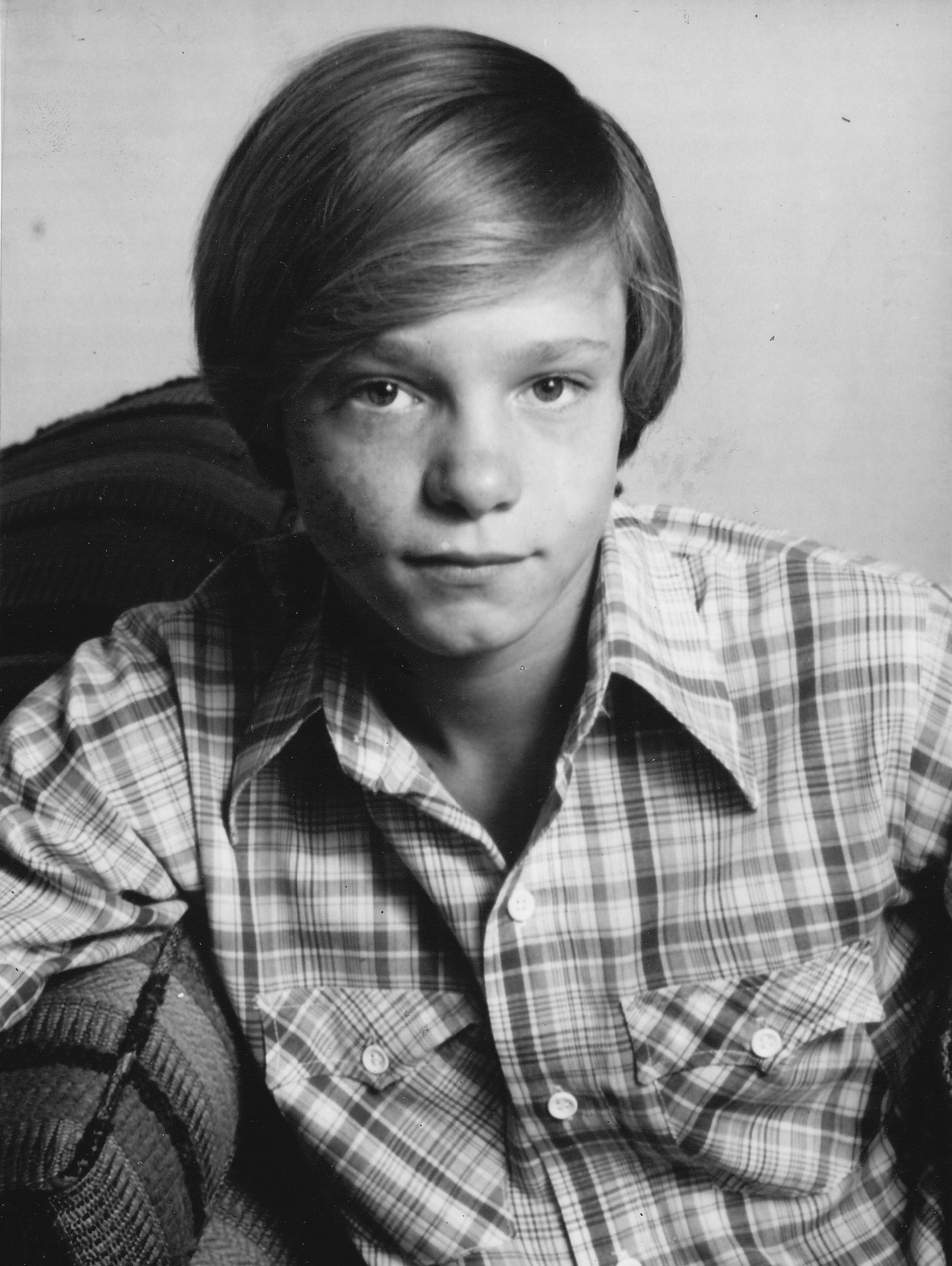 Publicity photo of teen actor Lance Kerwin during his time as the star of the NBC television series James at 15.